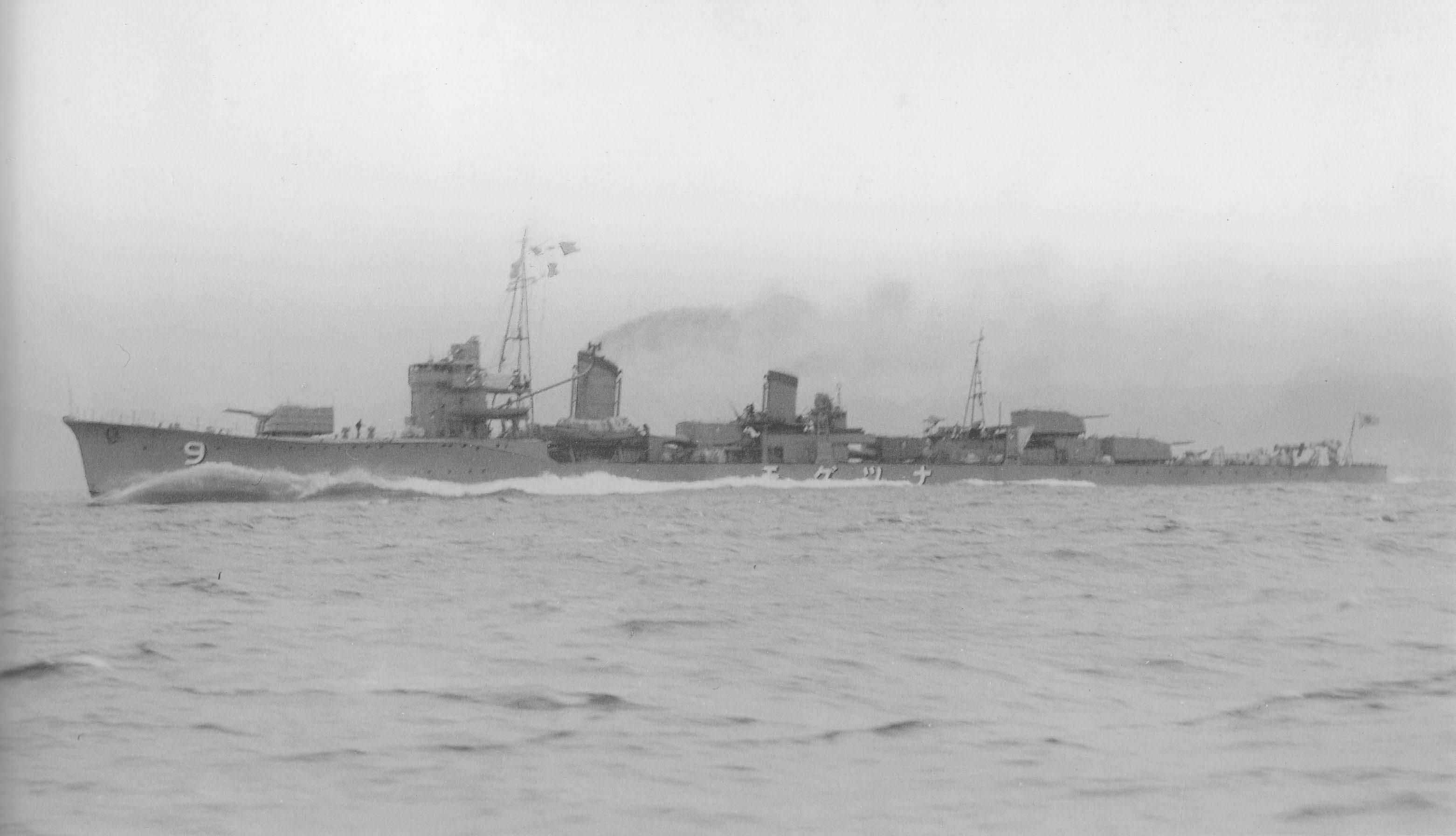 Imperial Japanese Navy destroyer Natsugumo